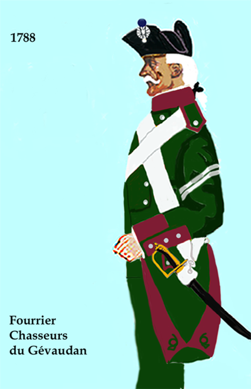 Uniforms of the french rifles of foot in 1788